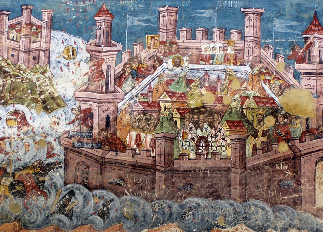 A Siege of Constantinople (Moldoviţa)